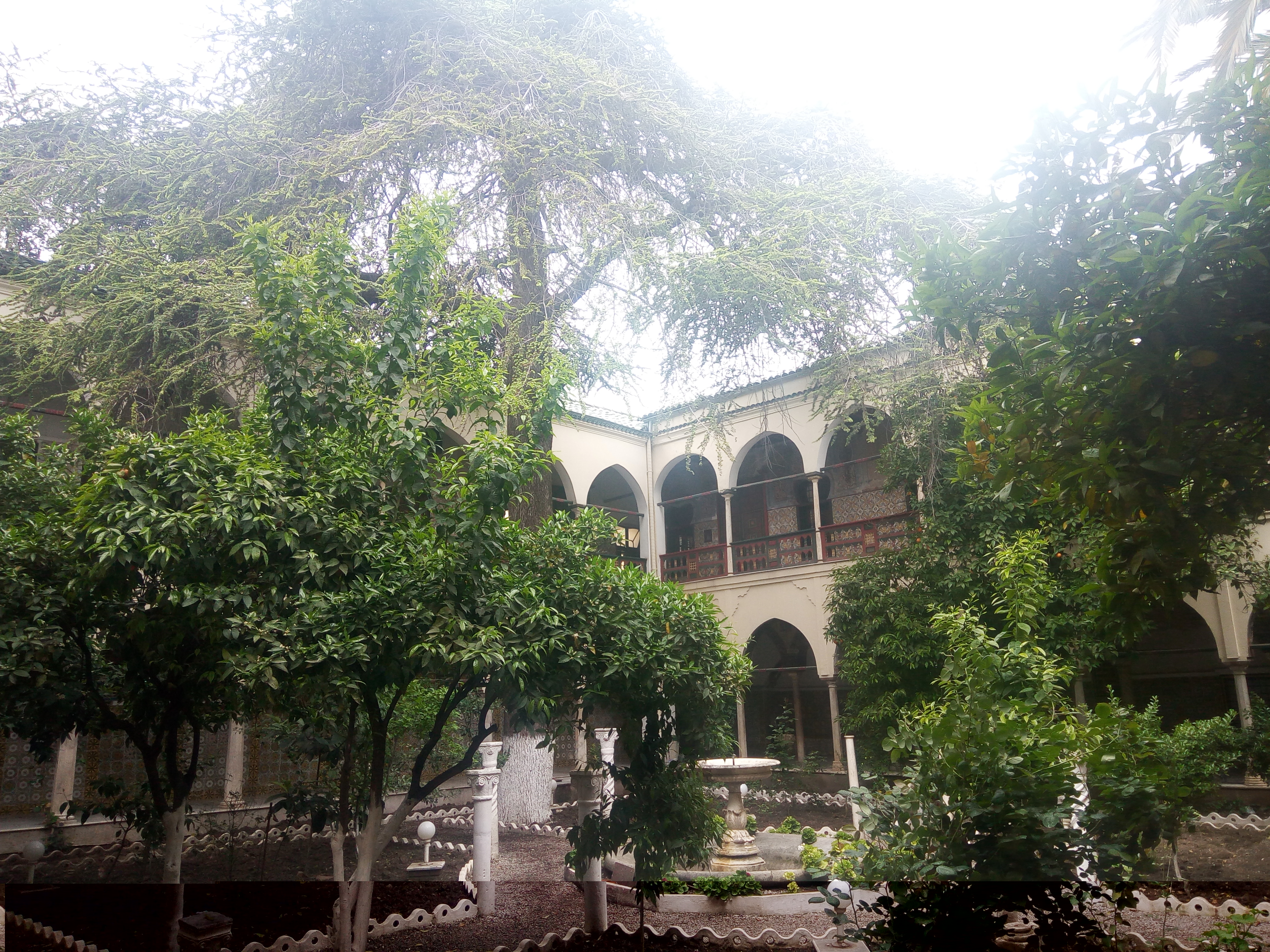 Garden of the orange trees, Ahmed Bey Palace, Constantine